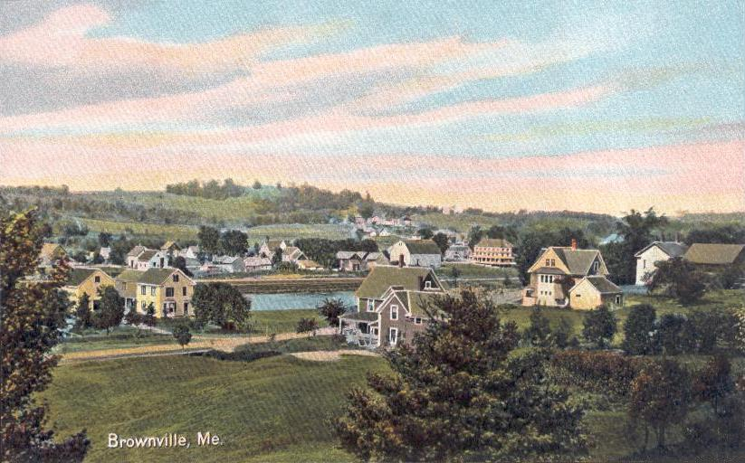 General View of Brownville, ME; from a c. 1910 postcard.